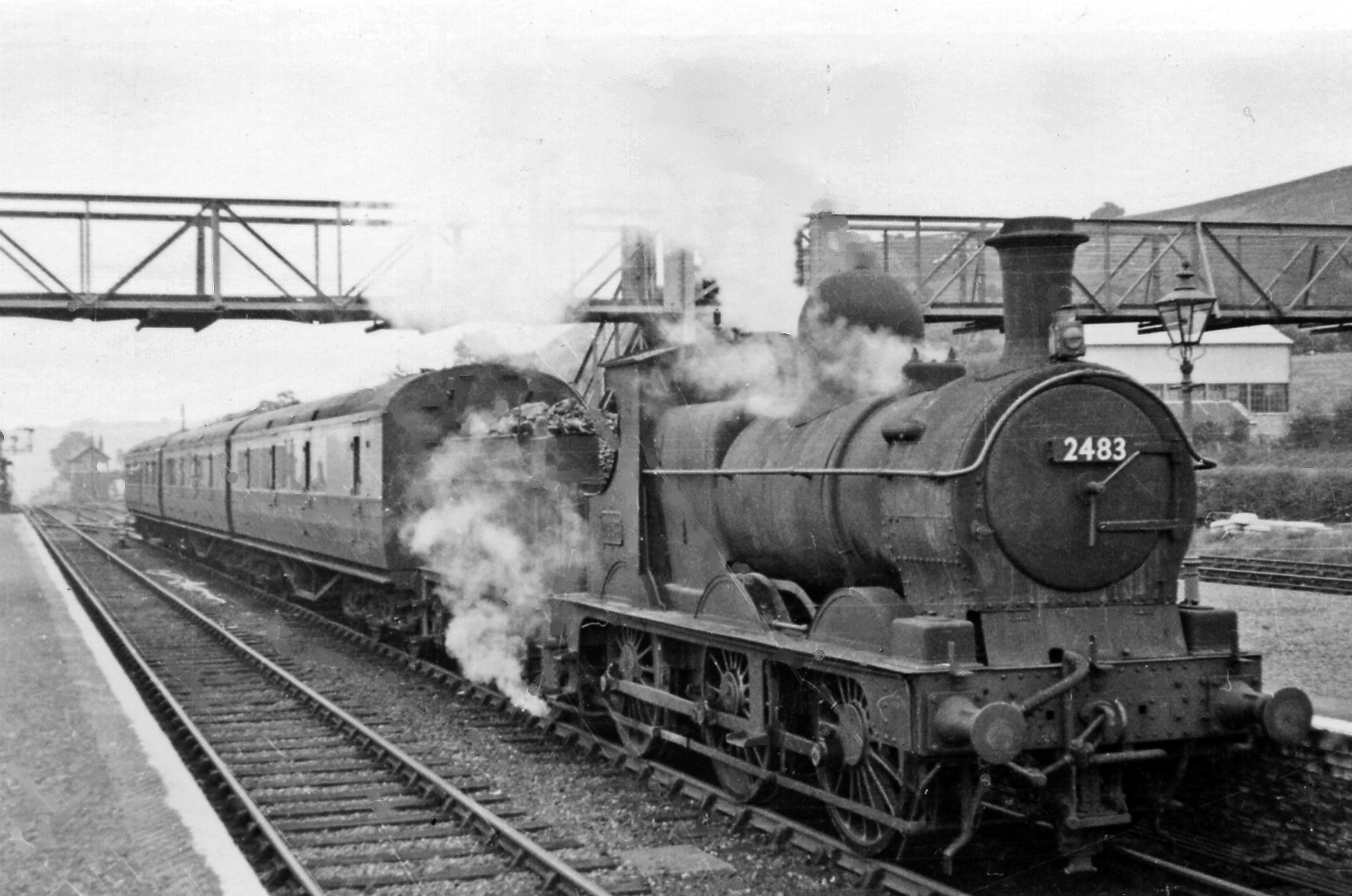 Llanidloes station, with southbound Mid-Wales line train. View northward, towards Moat Lane Junction: ex-Cambrian Railway Mount Lane - Builth - Three Cocks line. Back in 1949, ex-Cambrian or ex-GW 0-6-0's worked most of the traffic on this line, which was closed on 31/12/62 although goods traffic continued as far as Llanidloes until 4/5/64. No. 2483 is a GW 'Dean Goods' 0-6-0 (built 5/1896, withdrawn 9/52).